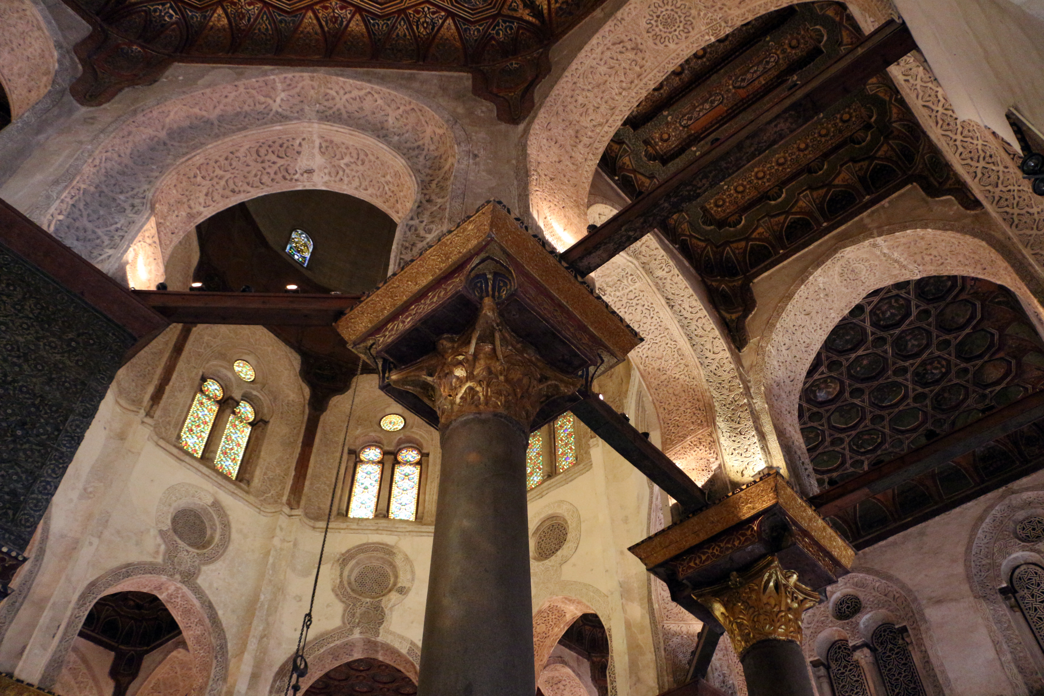 Qalawun complex